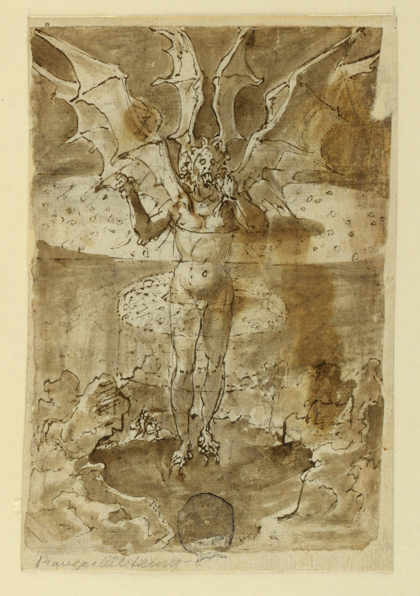 Horizontal rectangle. Two scenes on recto: at left A) St. Christopher nearing the left bank of a river, by which a woman stands near a lantern. At right: B) the Virgin holds the Child standing in her lap. Verso, vertically: C) Lucifer stands in his ice block crushing sinners with his teeth. Others wholly covered by ice are at his feet. Dante and Virgil are shown in the back, the first is seated.